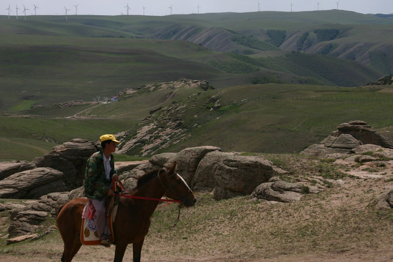 Huitengxile wind farm, Inner Mongolia, People's Republic of China